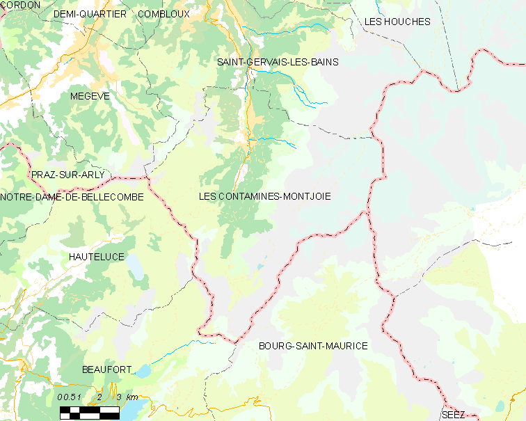 Map of French municipality Les Contamines-Montjoie